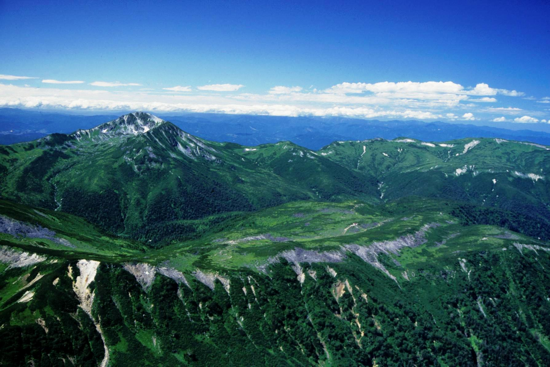 Kurobegoroudake_from_suisyoudake